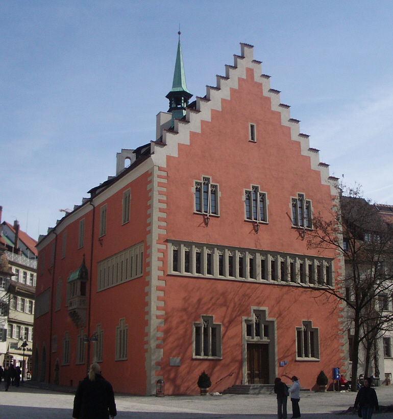 Ravensburg, Germany: Rathaus (town hall), Marienplatz